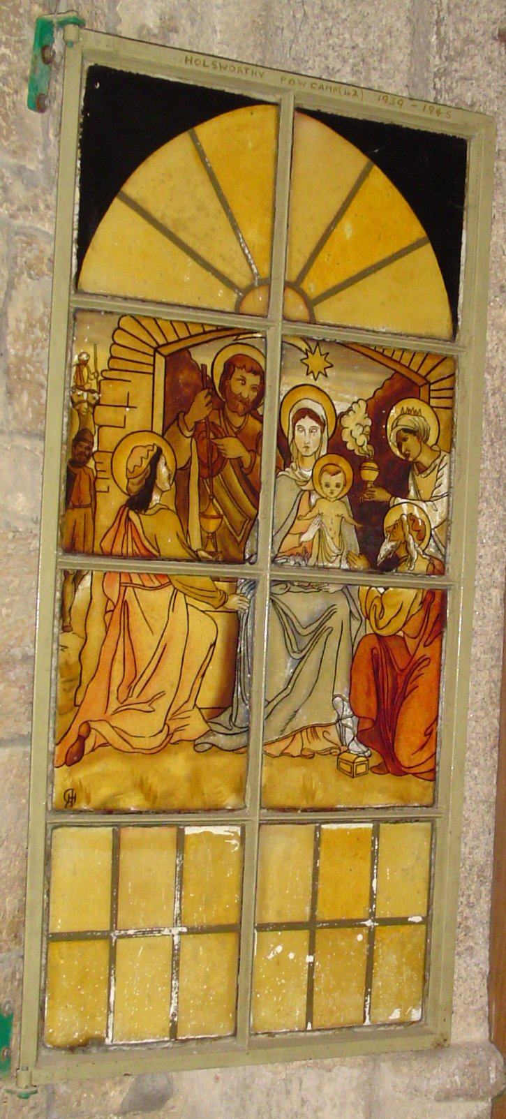 Holsworthy POW Church Window #2